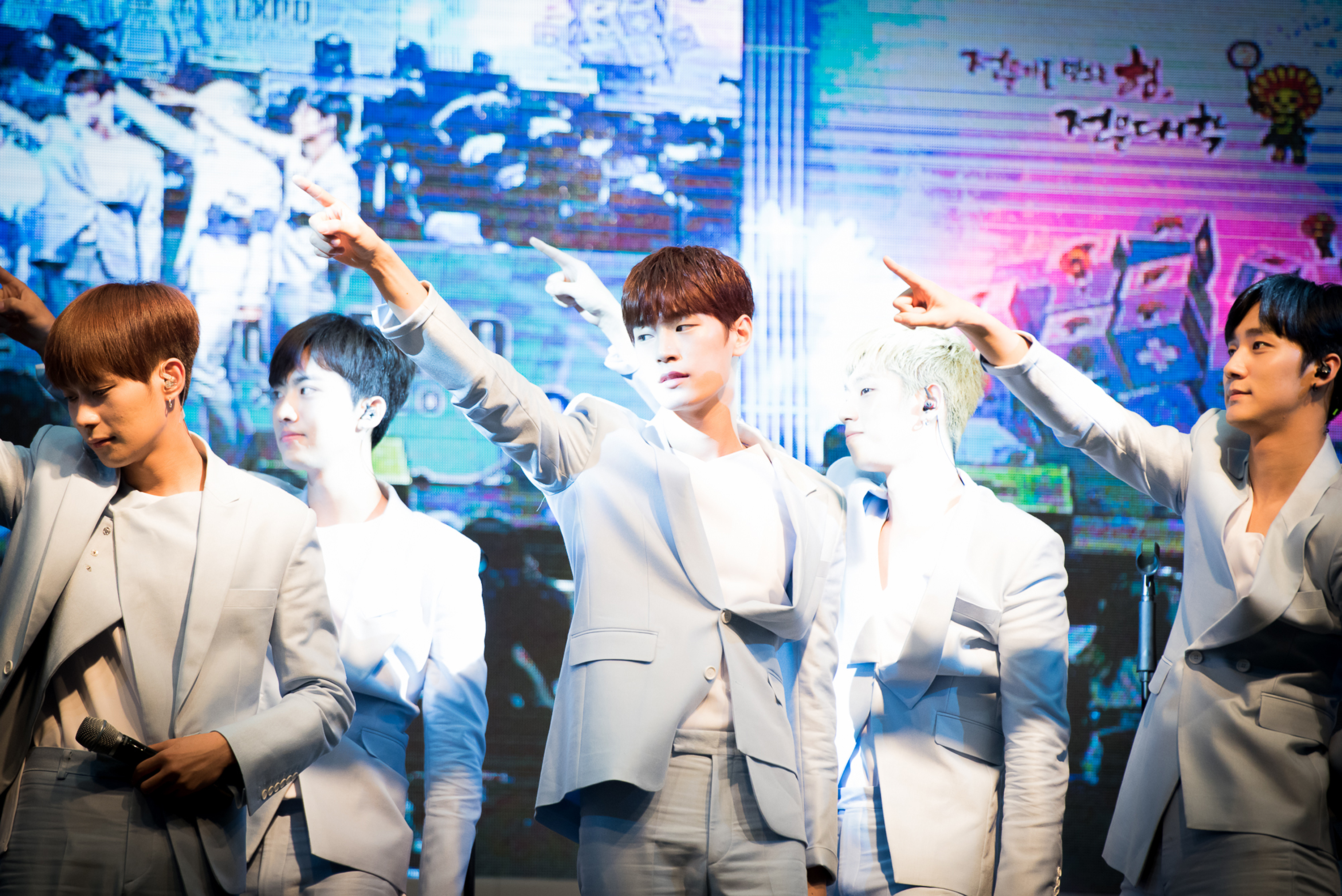 KNK performing at KBS Cool FM on July 14, 2016. Left to right: Heejun, Inseong, Seungjun, Youjin and Jihun.